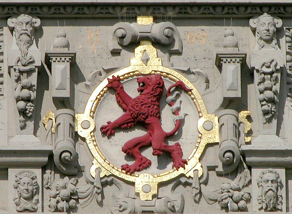 Brunswick, Germany: Cloth Hall, lion of the east façade.